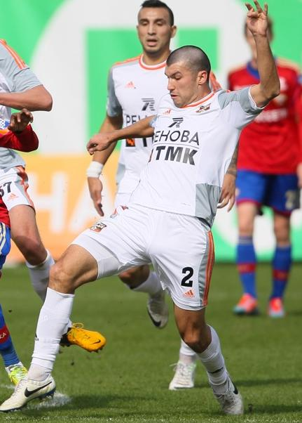 Vladimir Khozin with FC Ural Sverdlovsk Oblast in 2014.